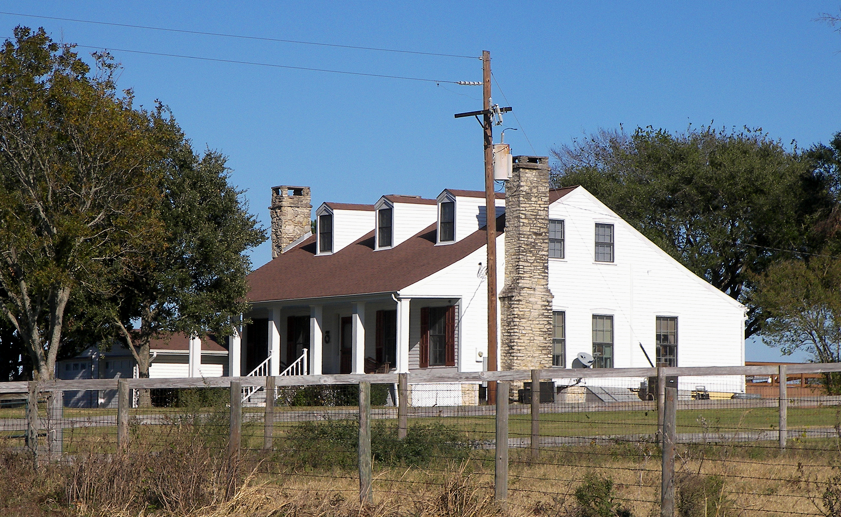 The Foster House in Grimes County, Texas, United States. The house was listed on the National Register of Historic Places on September 8, 1980.